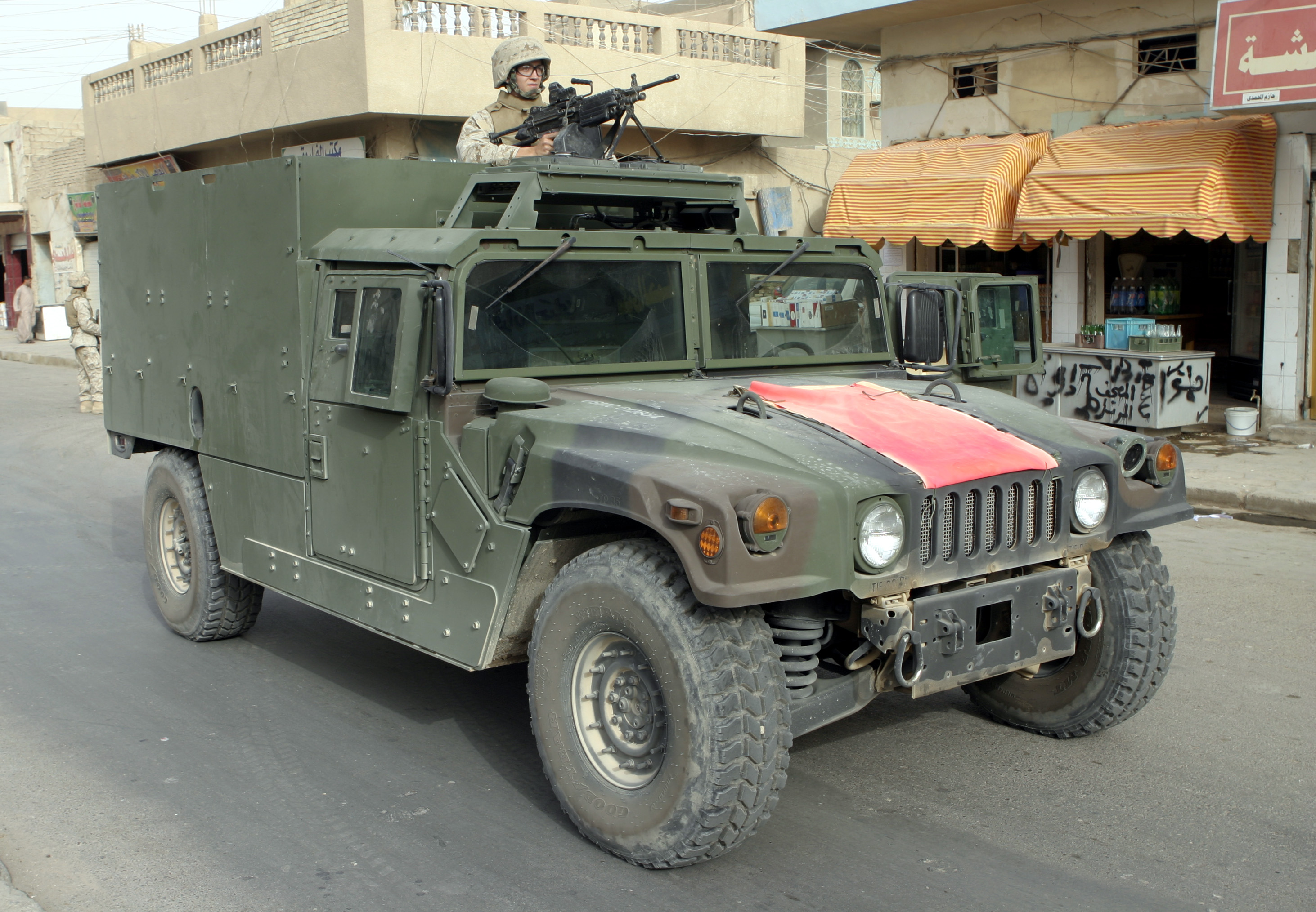 FALLUJAH, Iraq - Lance Cpl. Josh Griffin, an infantryman with Surveillance, Target and Acquisition Platoon, Company W, 1st Battalion, 6th Marine Regiment, provides security from atop his new MAK HMMWV (Marine Armor Kit equipped High Mobility Multi-Wheeled Vehicle) in a street in downtown Fallujah. The 21-year-old Grenada, Miss. native's unit is currently receiving several of these hardened vehicles to protect the troops against roadside bomb detonation and small arms fire.